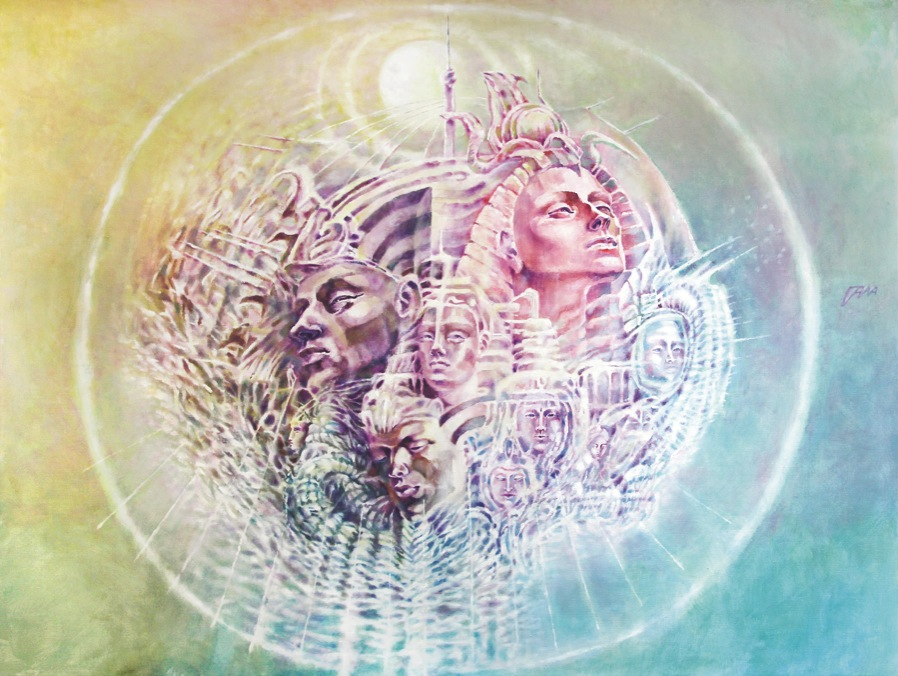 Korabl Ishtar